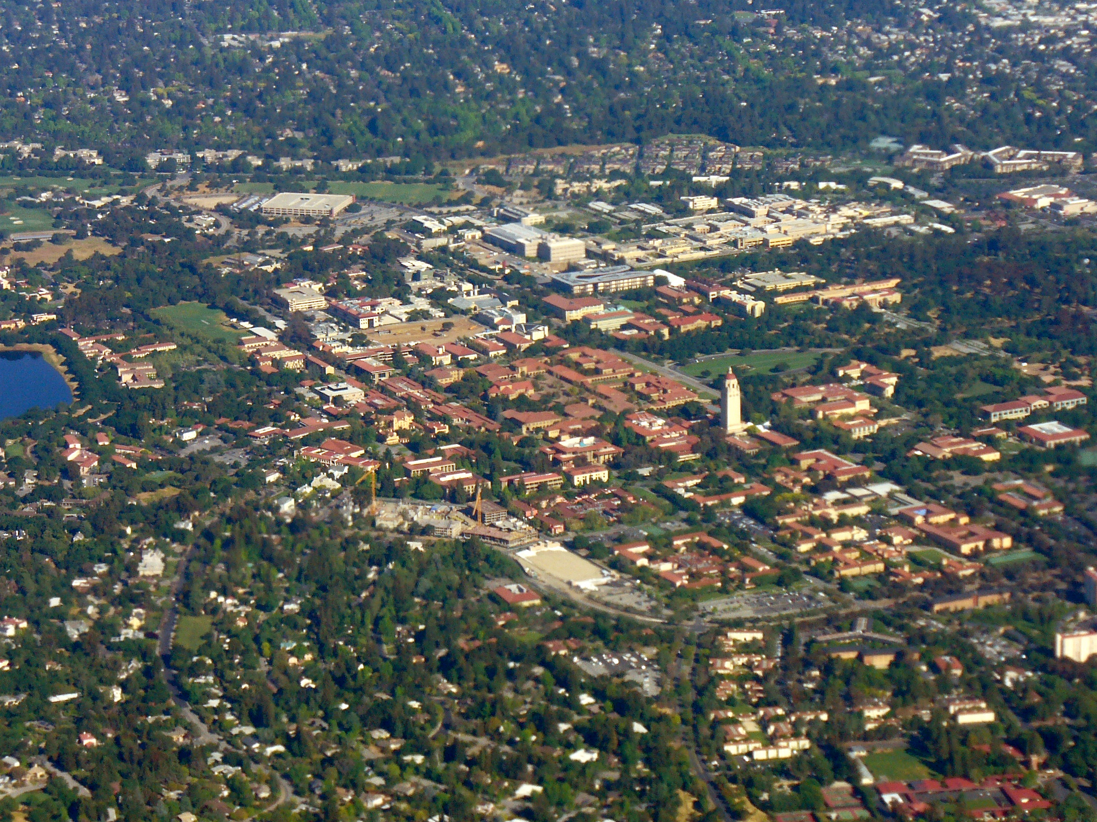 This is an aerial photograph of Stanford University's campus. The camera is pointing northwest.